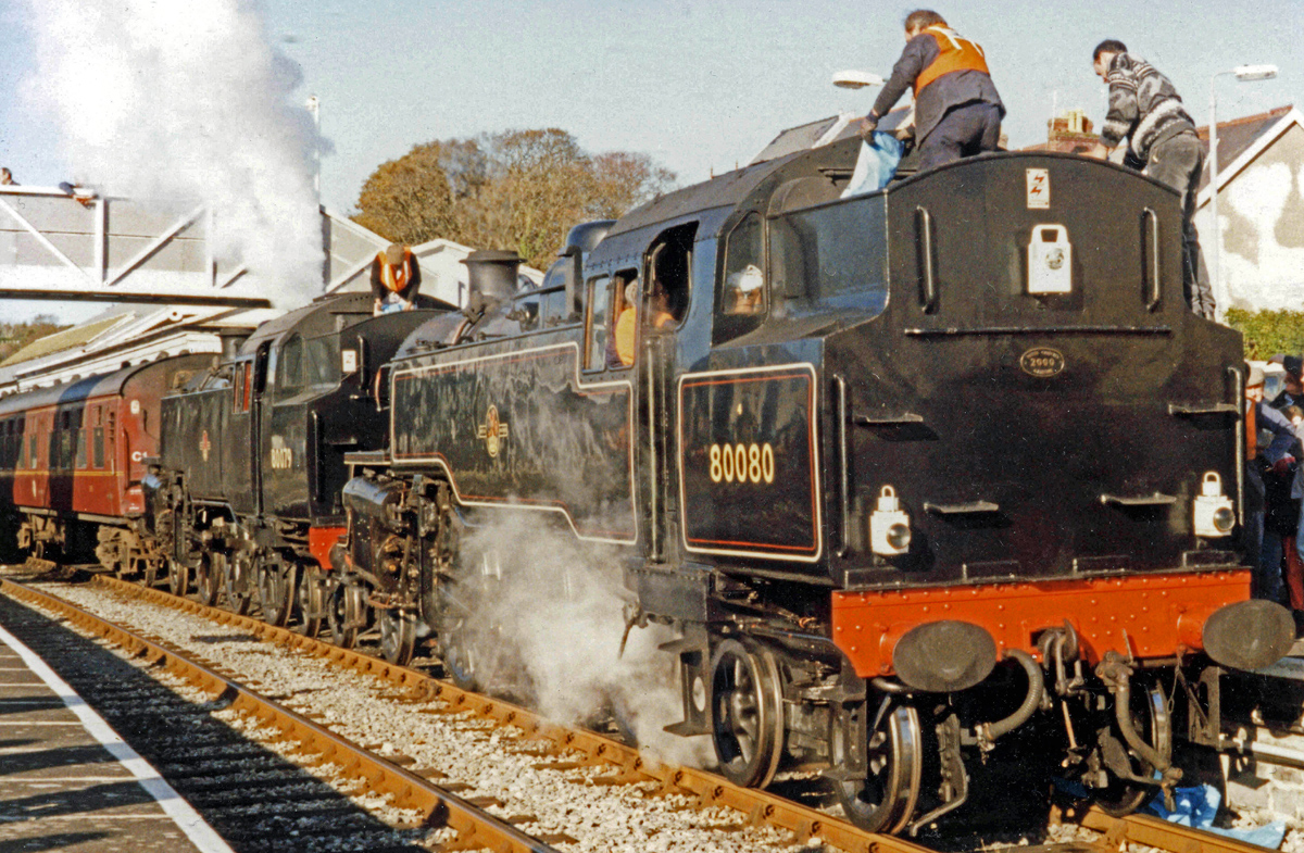 80080 & 80079 BR 4MT 2-6-4T on excursion train at Tenby railway station en route Swansea to Pembroke Dock and return in October 1993